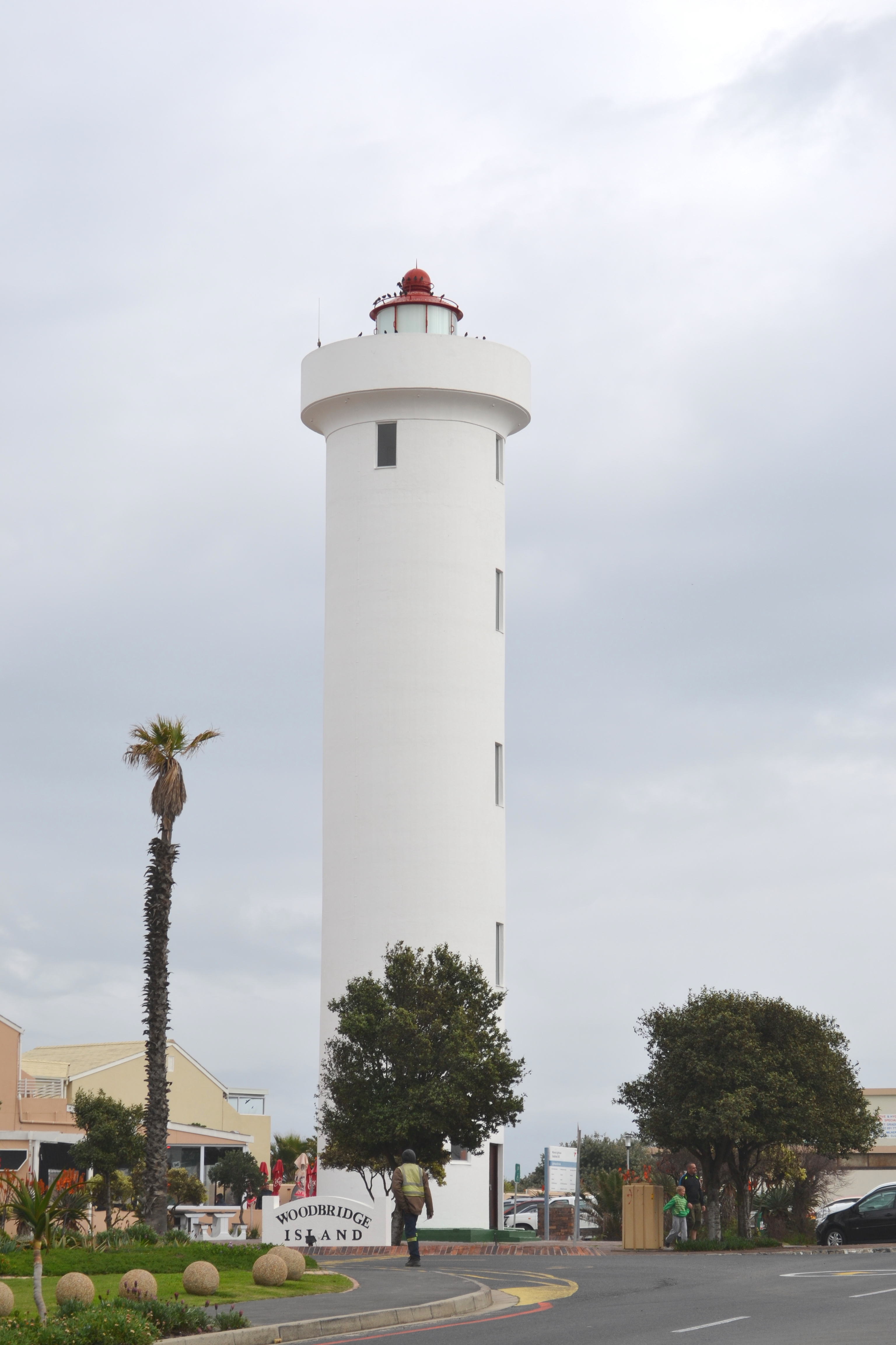 Milnerton, Cape Town